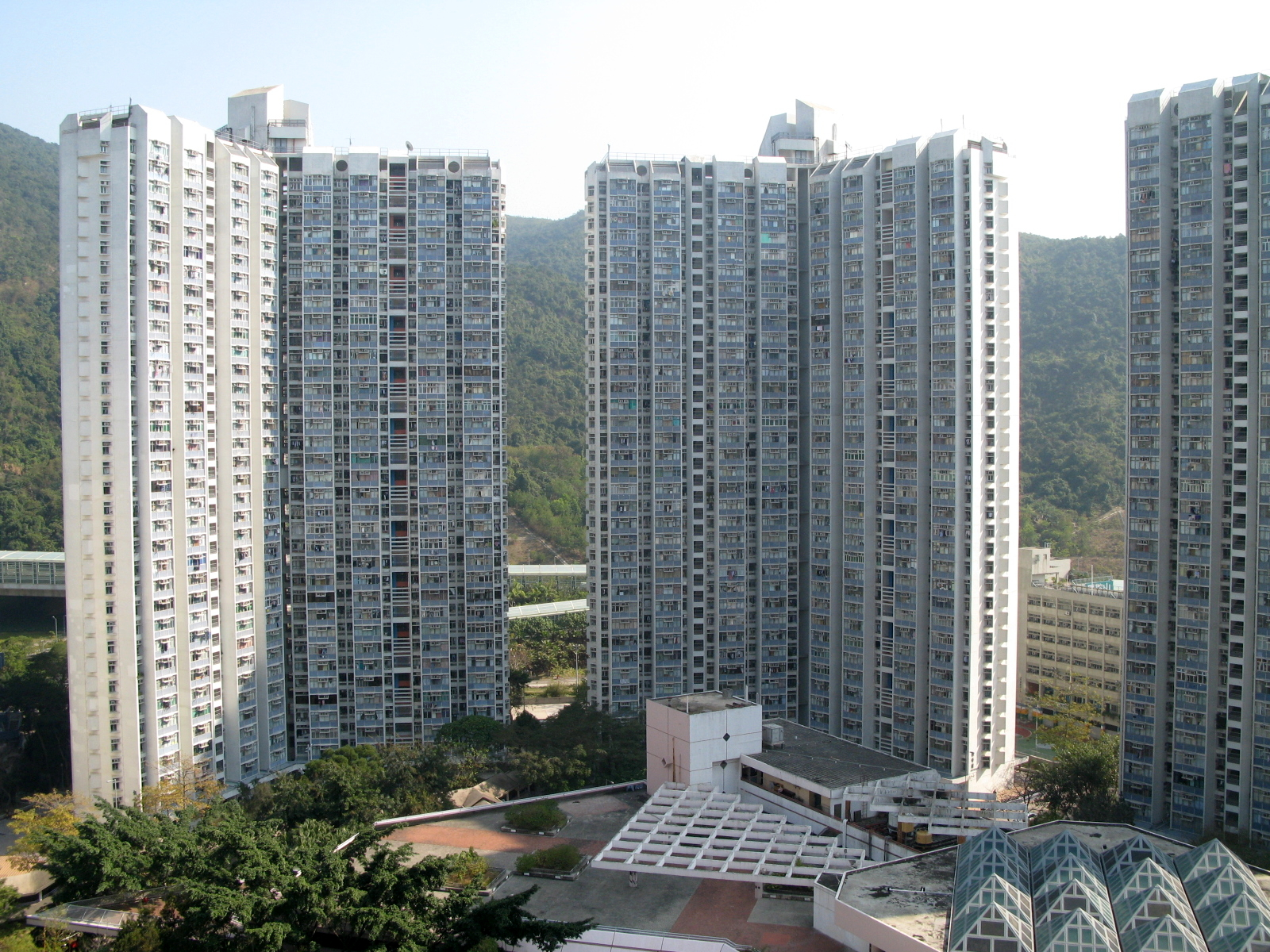 HK Ma On Shan Hang On Estate View